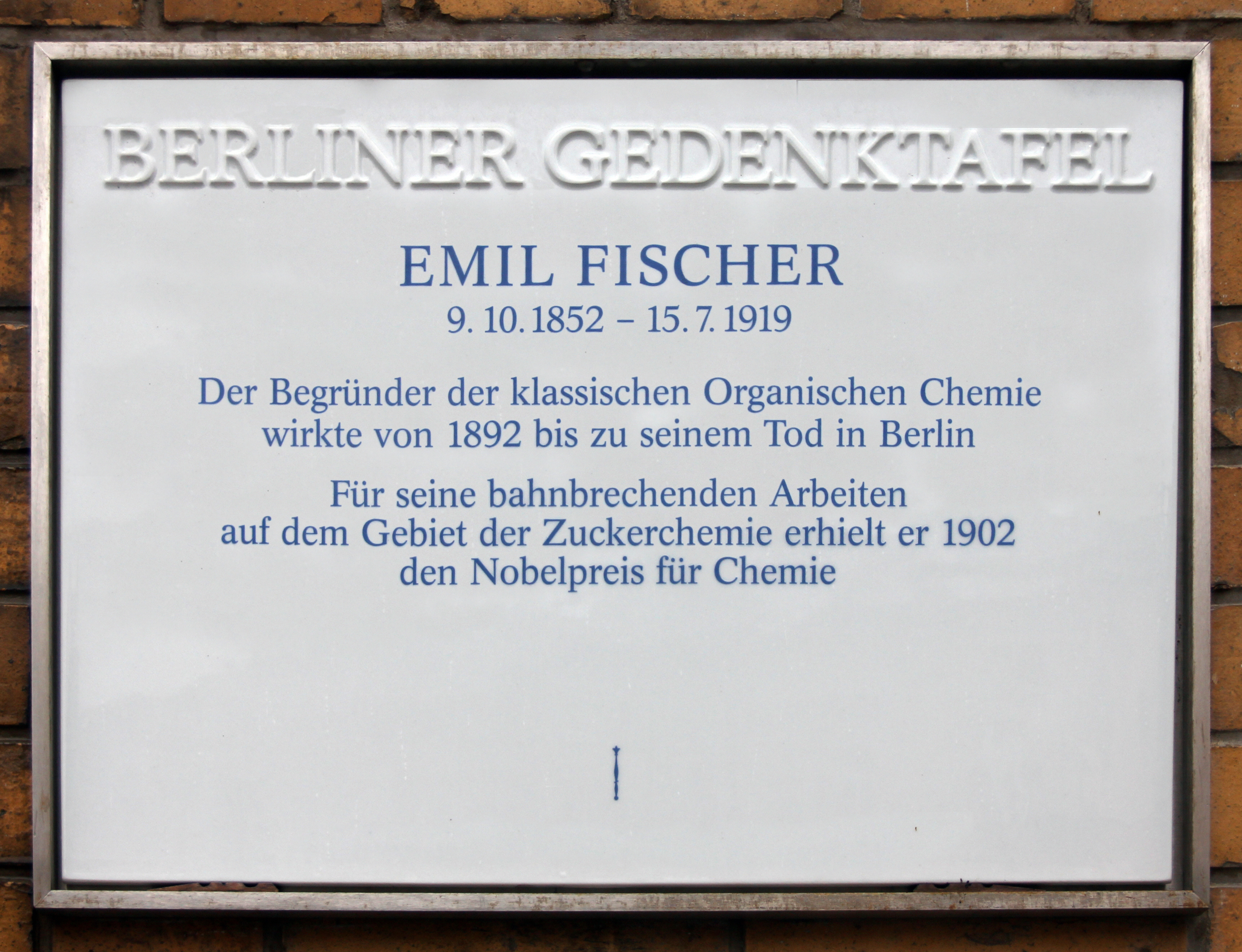 Berlin memorial plaque, Hermann Emil Fischer, Hessische Straße 1, Berlin-Mitte, Germany